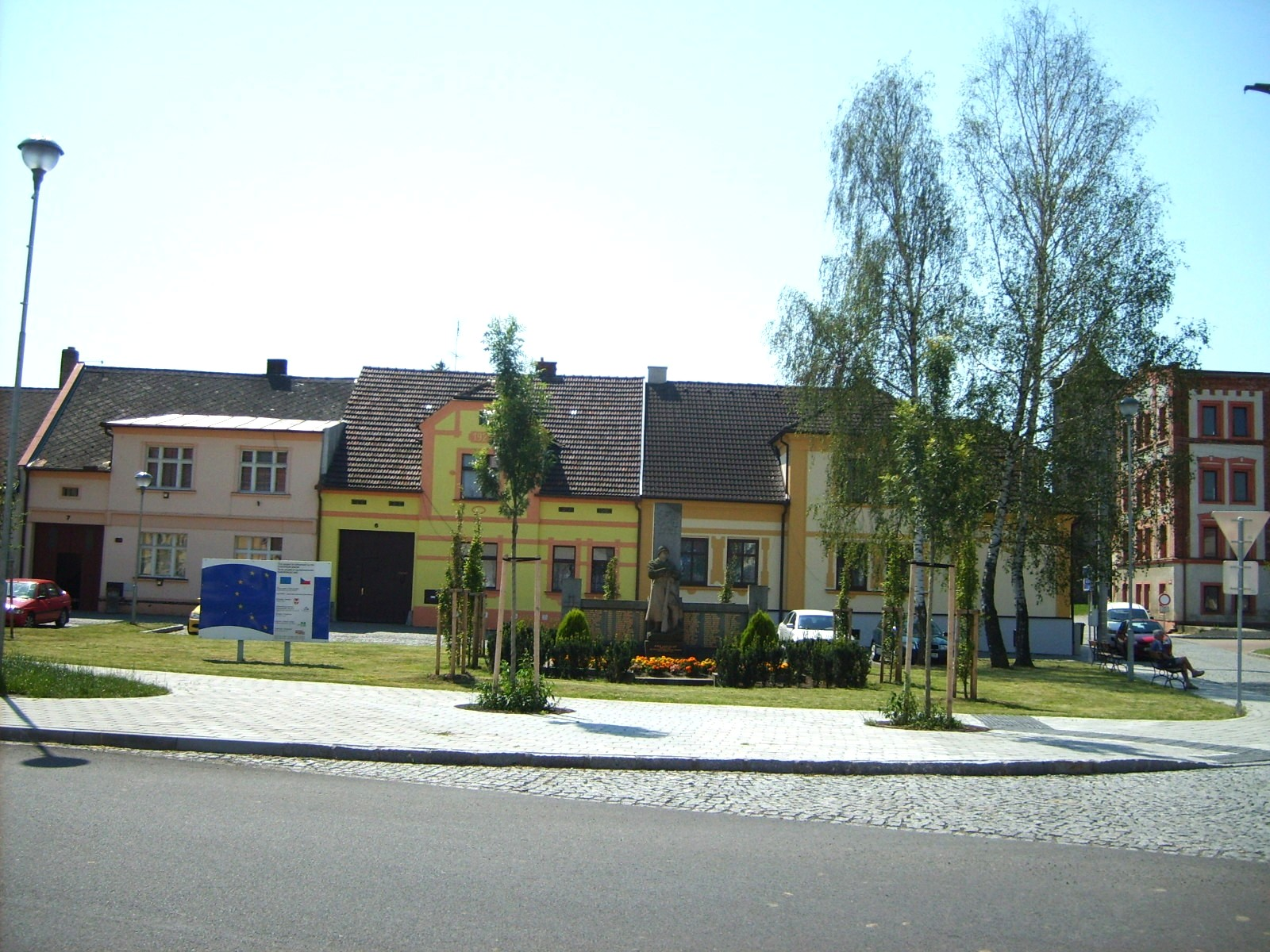 Momument of sacrifices of world wars in Švihov.